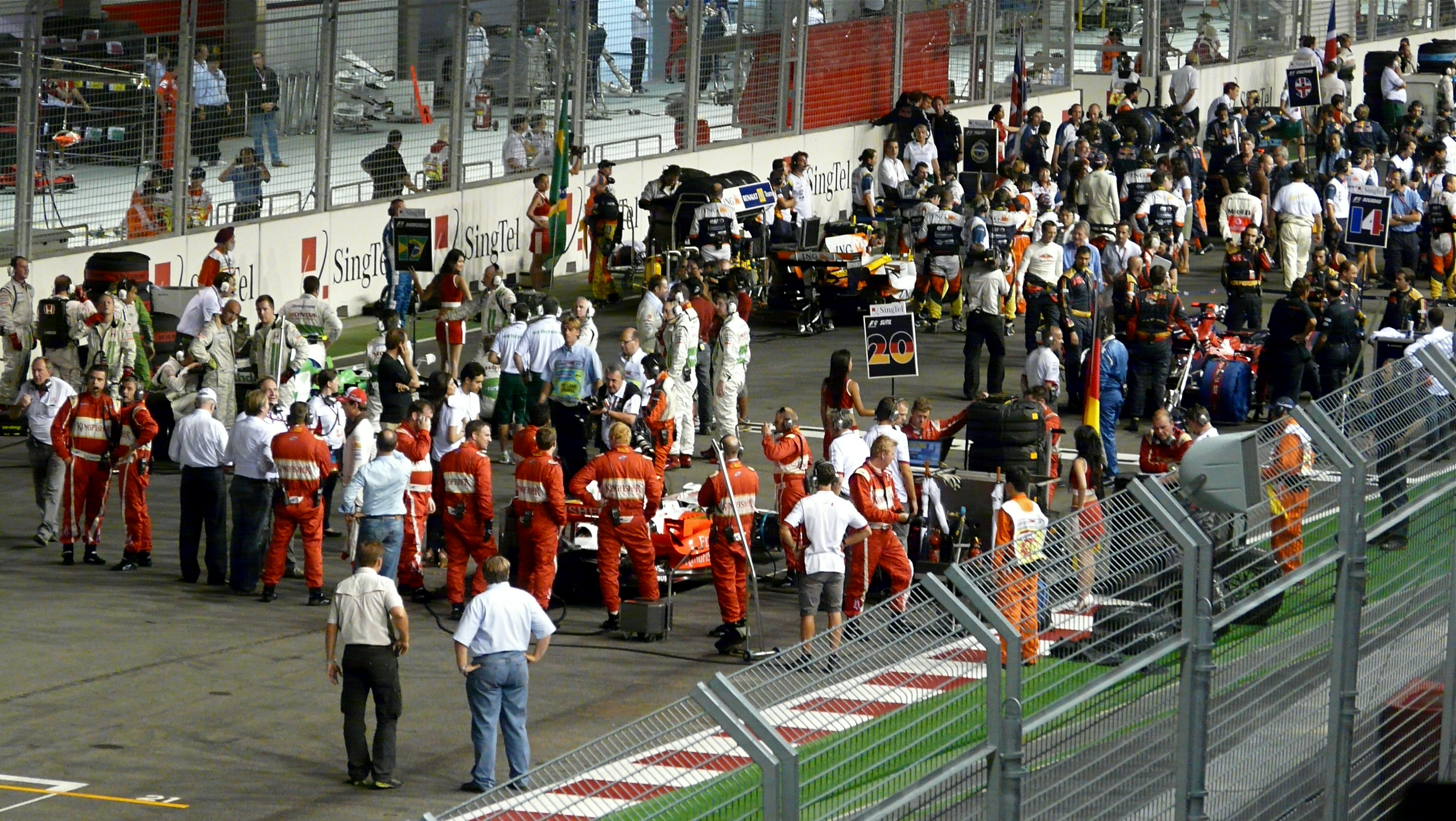 2008 Singapore Grand Prix race day pre-race